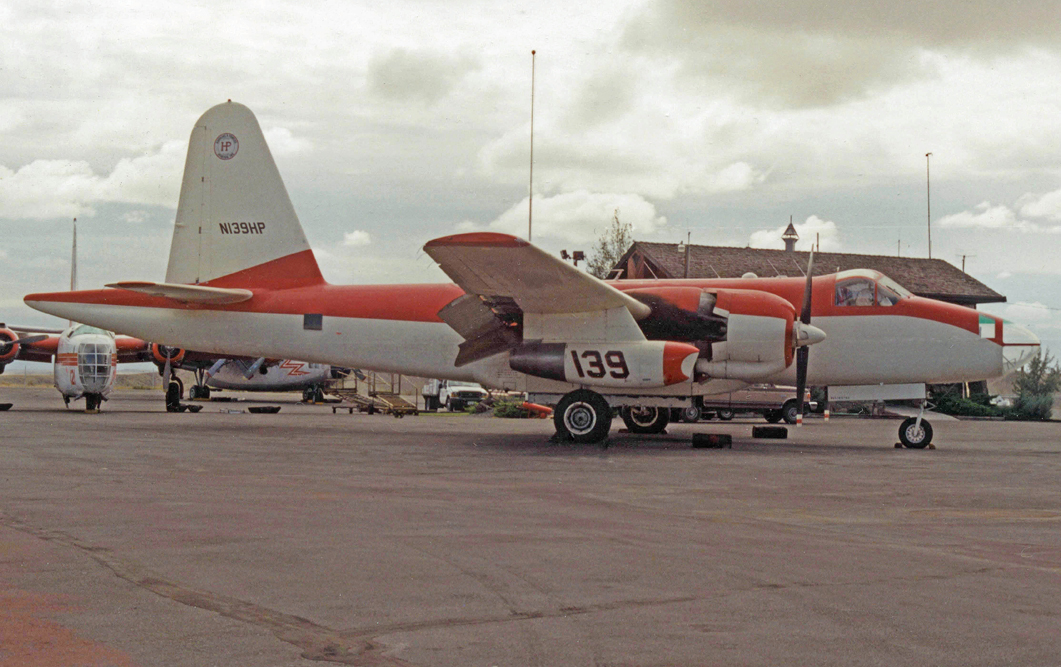 Greybull Airport, Wyoming, with Lockheed Neptune and other fire-fighting aircraft